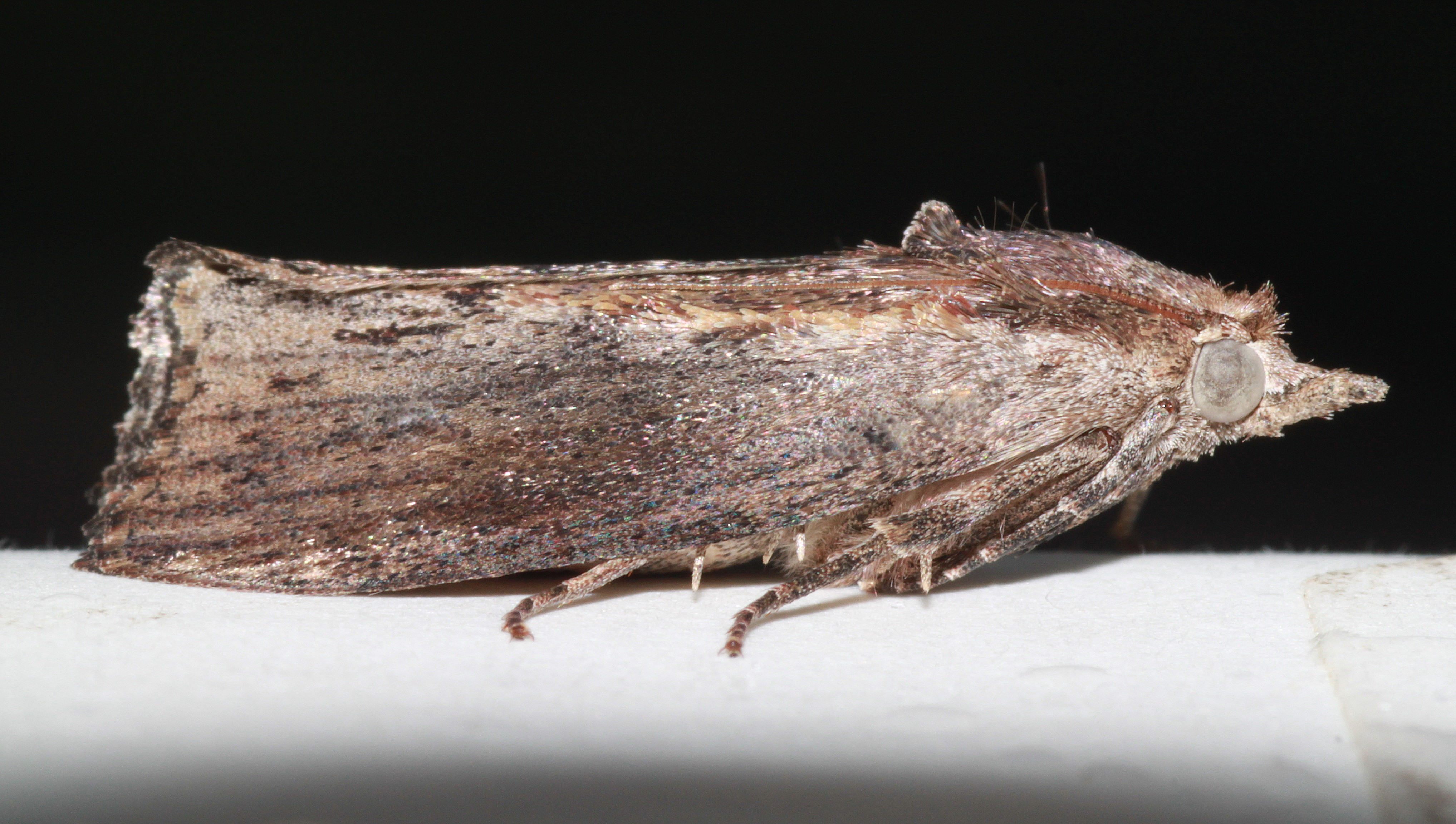 Order : Lepidoptera Family: Pyralidae Tribe: Galleriini Genus: Galleria Binomial name: Galleria mellonella (1758)